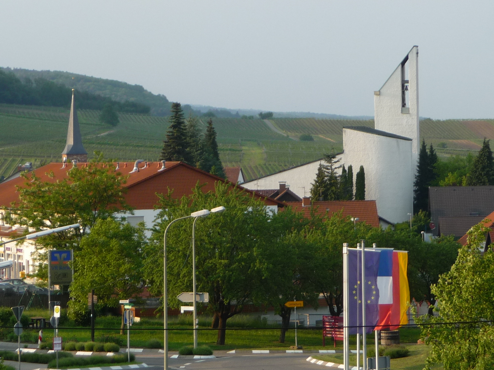 Schweigen-Rechtenbach